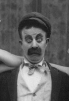 Chester Conklin